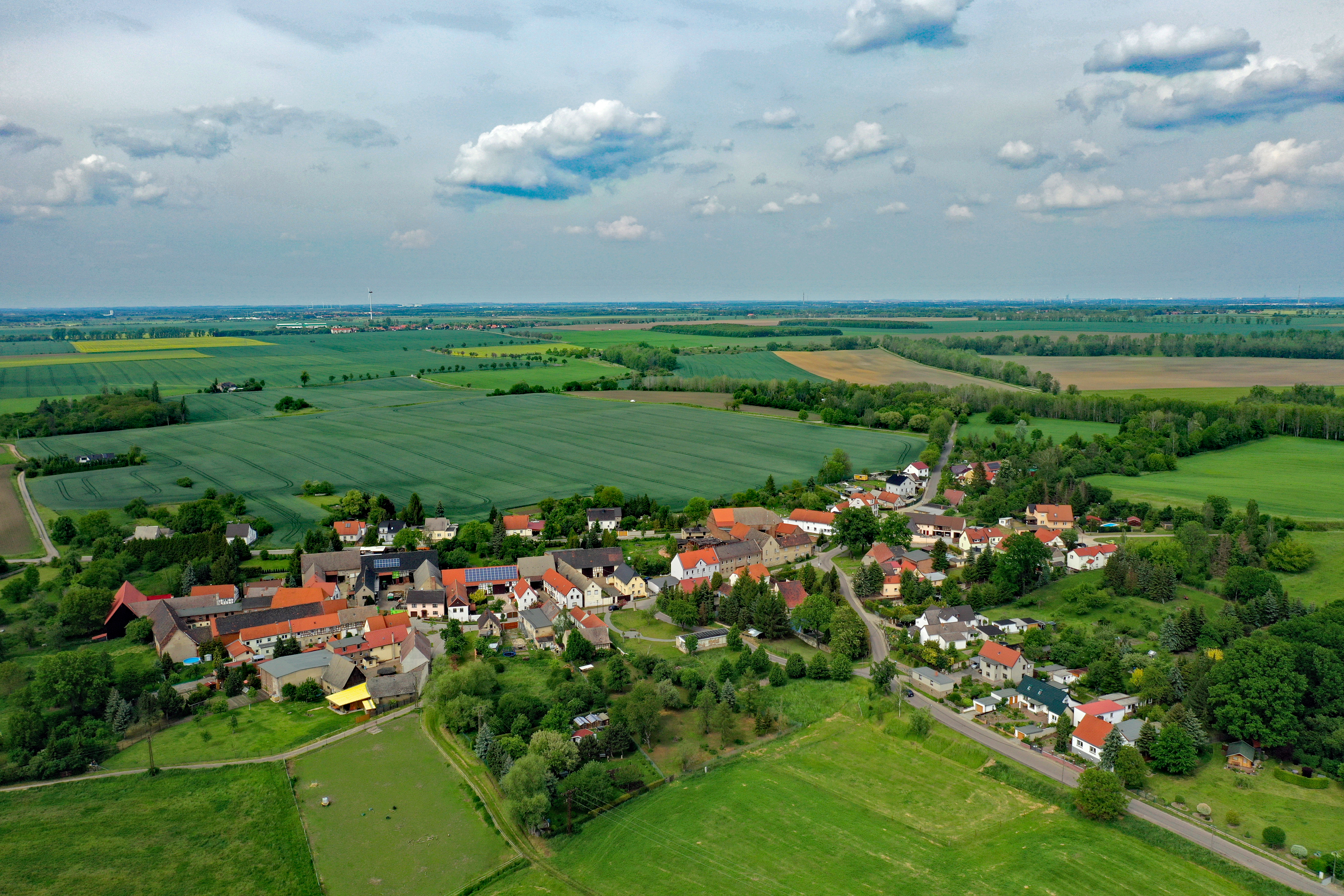 Söhesten (Lützen, Saxony-Anhalt, Germany)